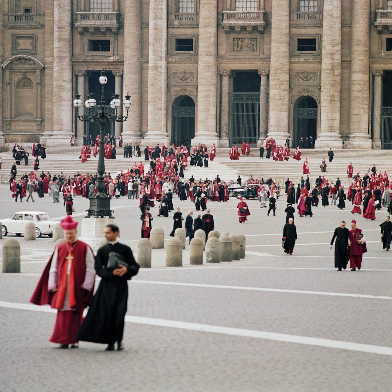 Second Vatican Council. Leaving St. Peter's Basilica